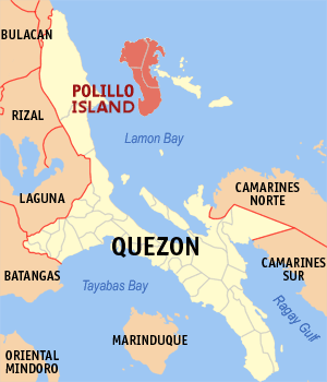 Map of Quezon showing the location of Polillo Island